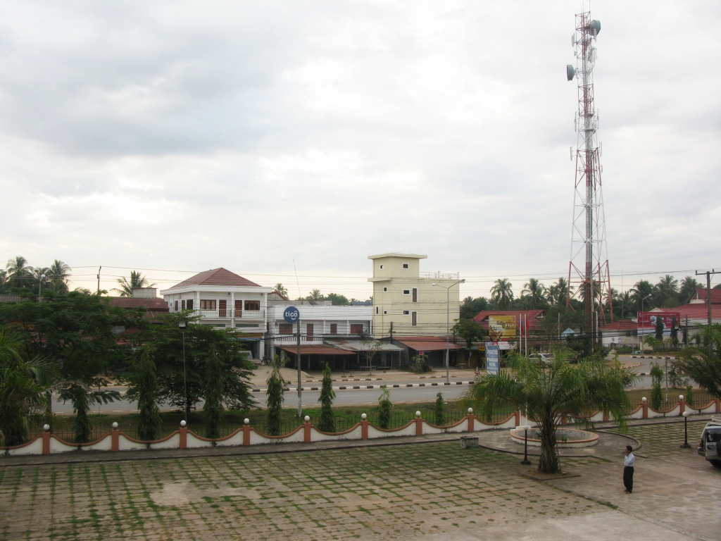 Route 13 in Pakxane, Laos.